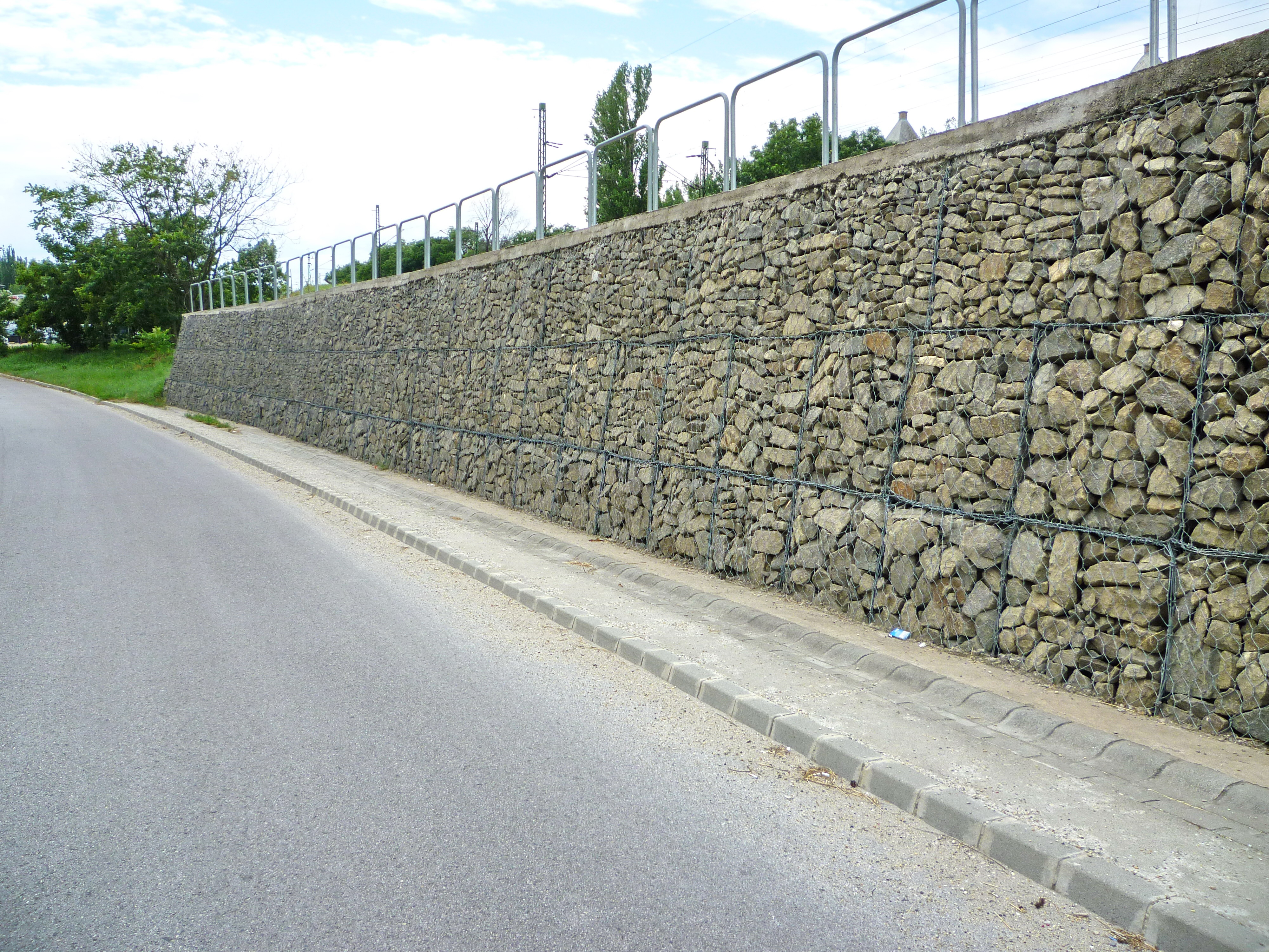 Dam protector gabions at Kelenföld, Budapest (Hungary).